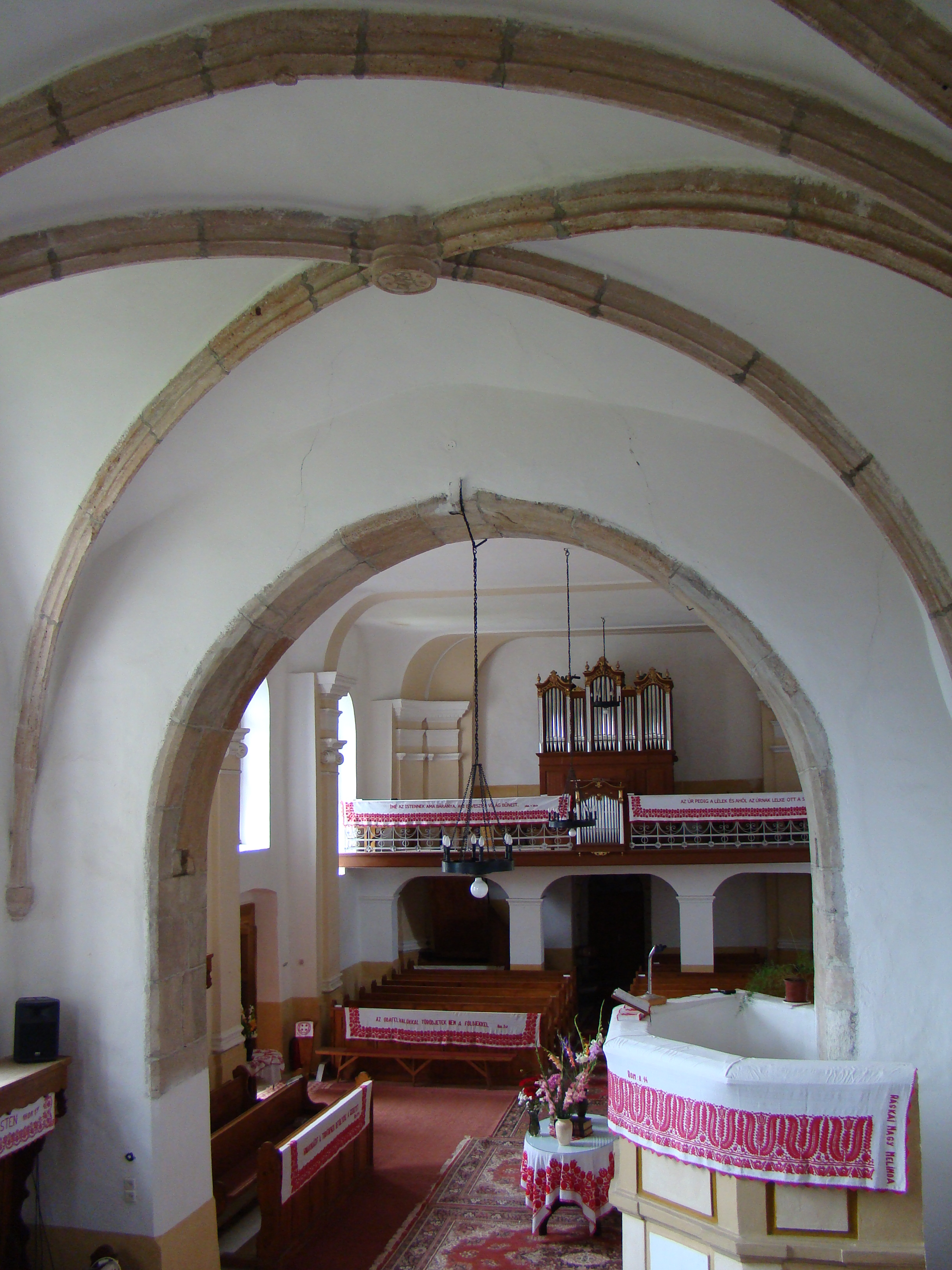 Interior of the Calvinist church in Reteag, Romania